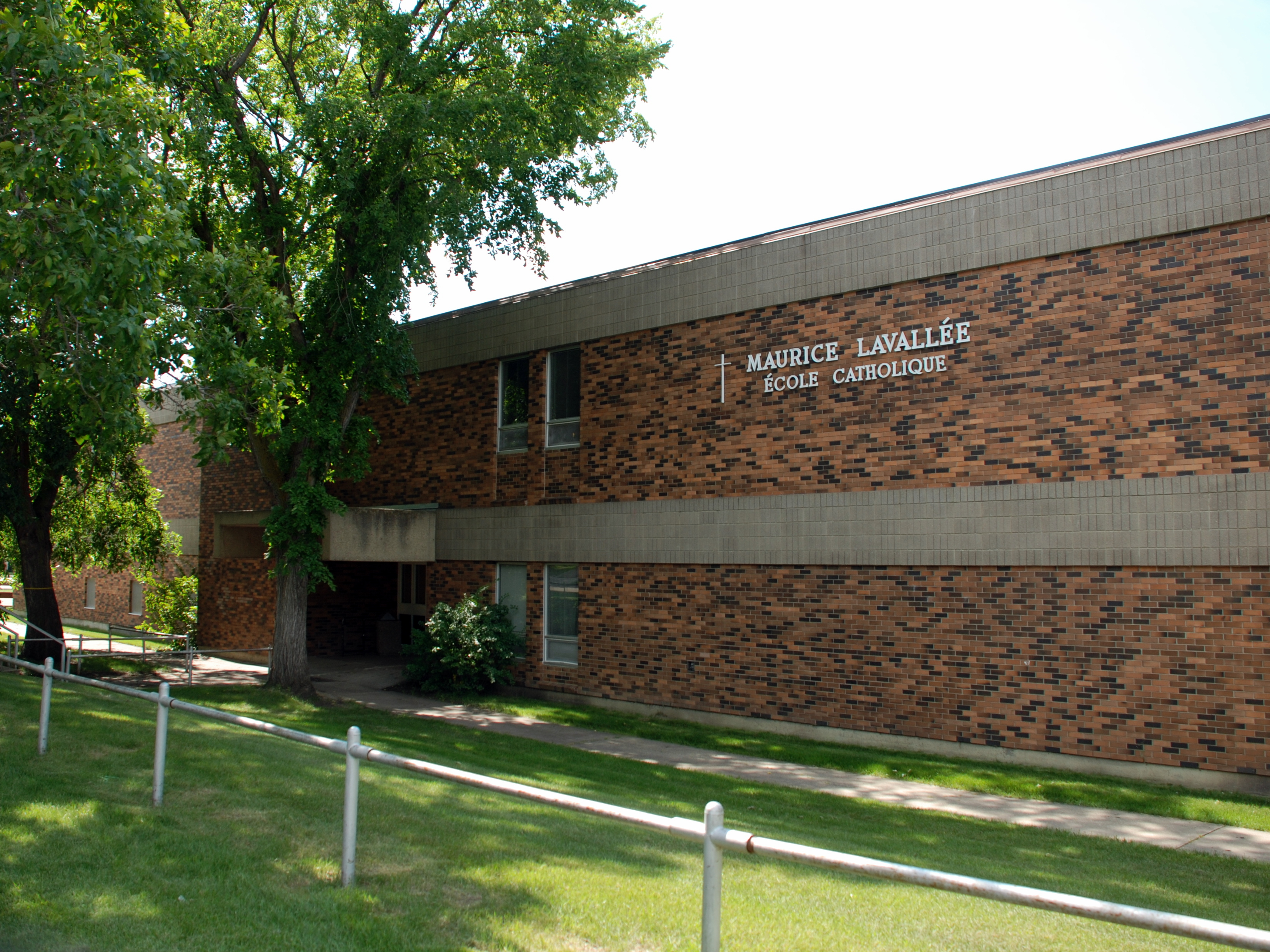 Picture of École Maurice-Lavallée